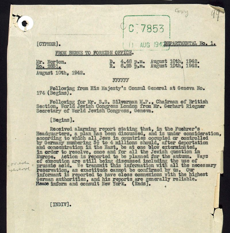 Description: This telegram from Gerhart Riegner, Secretary of the World Jewish Congress in Geneva, was received by the Foreign Office in August 1942. The telegram was among the first pieces of unambiguous evidence received by the Allies that the Nazi Government planned a 'final solution' to the "Jewish question". Some comments within the file show officials suggested the telegram be used to influence the Vatican to condemn German atrocities more strenuously. Another civil servant dismisses Riegner's report as a "rather wild story". Samuel Sydney Silverman, the telegram's intended recipient, was the Labour MP for the Lancashire constituency of Nelson and Colne. Silverman was a campaigner for Jewish rights, amongst other causes including opposition to capital punishment. Date: August 10th 1942 Our Catalogue Reference: FO 371/30917 This image is from the collections of The National Archives. Feel free to share it within the spirit of the Commons. For high quality reproductions of any item from our collection please contact our image library.